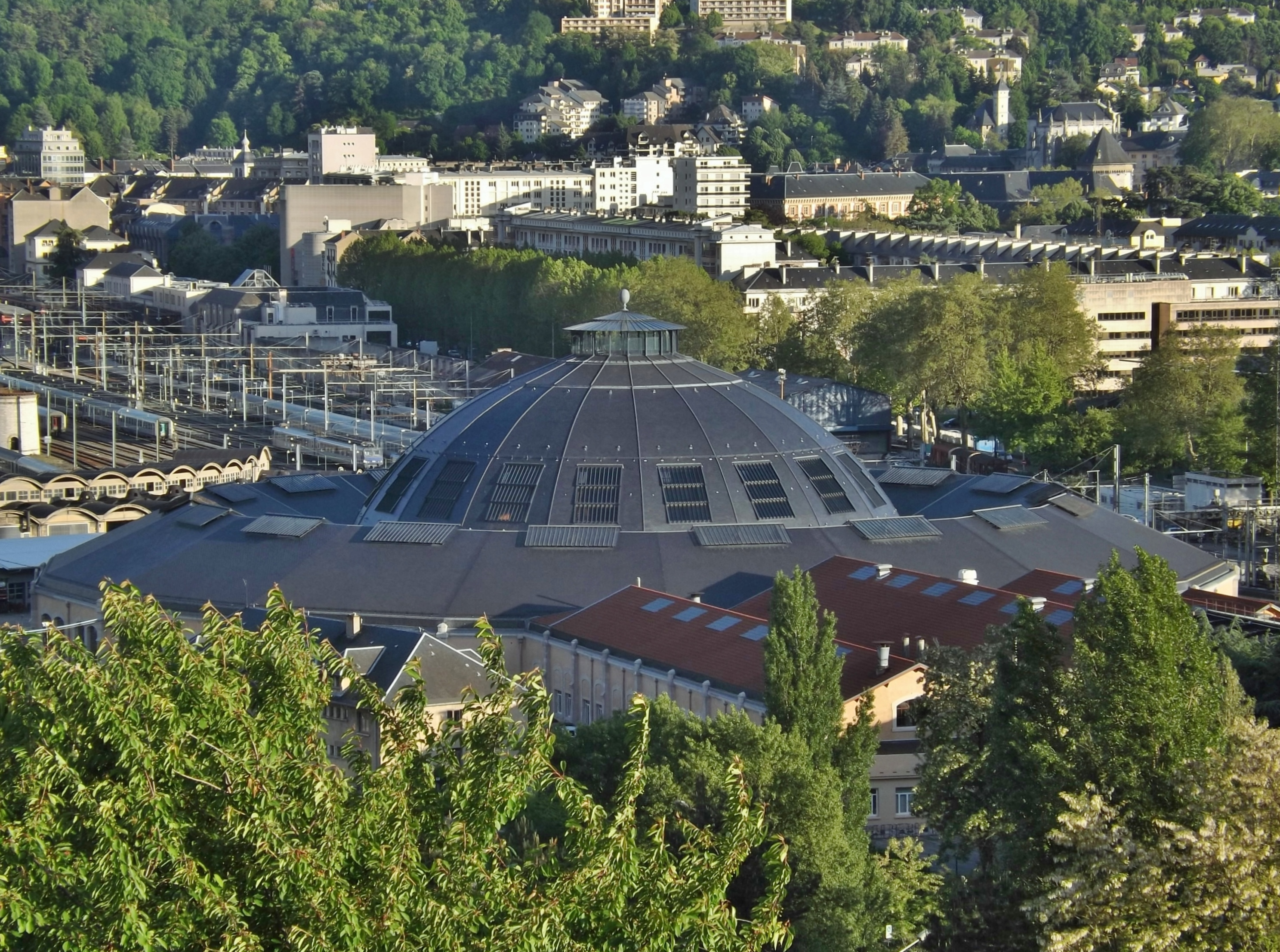 Sight of the railway roundhouse of Chambéry in Savoie, France. At the background can be seen the city railway station and castle.